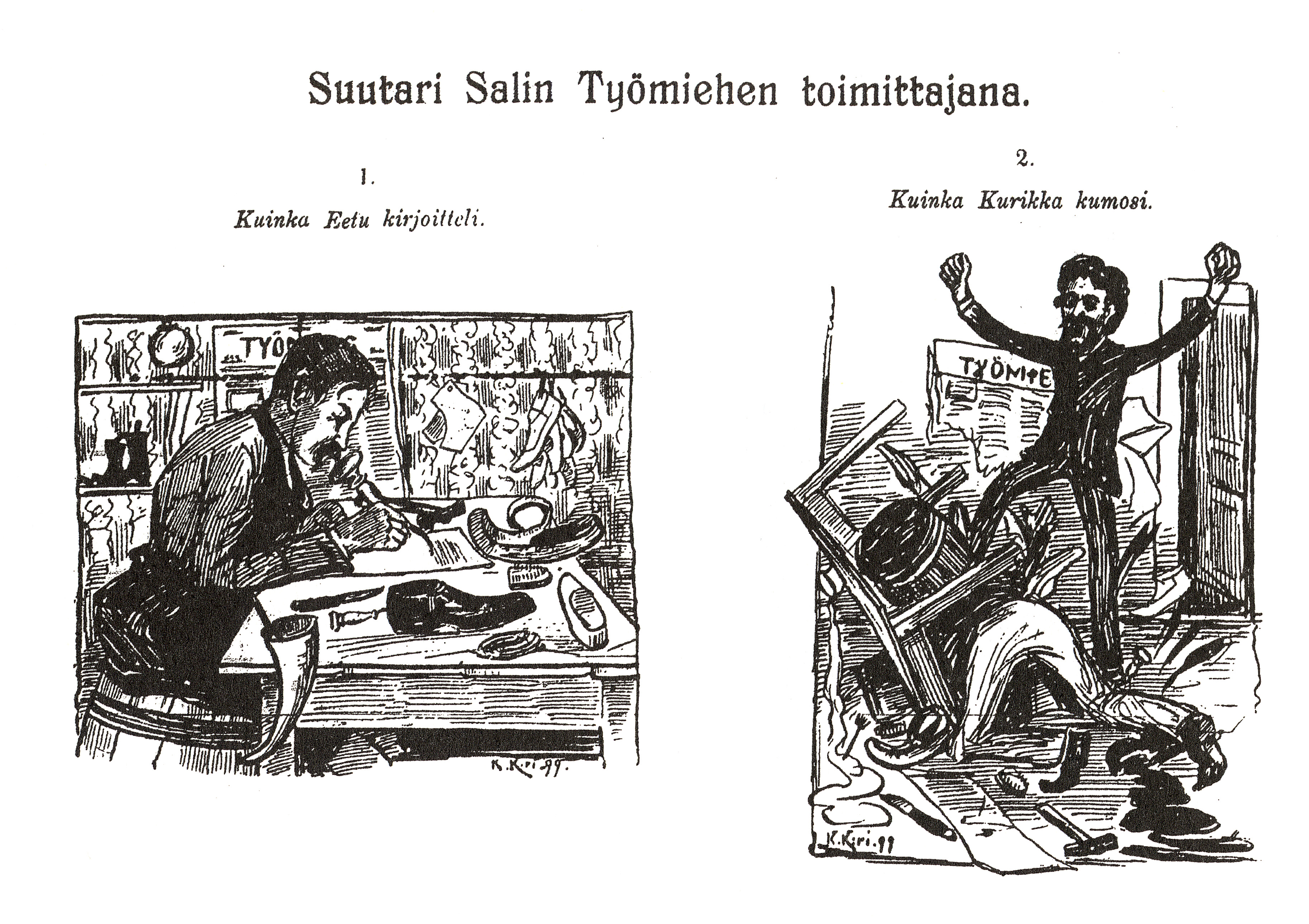 Finnish socialist leaders Eetu Salin and Matti Kurikka. A caricature by Kaarlo Kari. Matti Meikäläinen 17.2.1899.